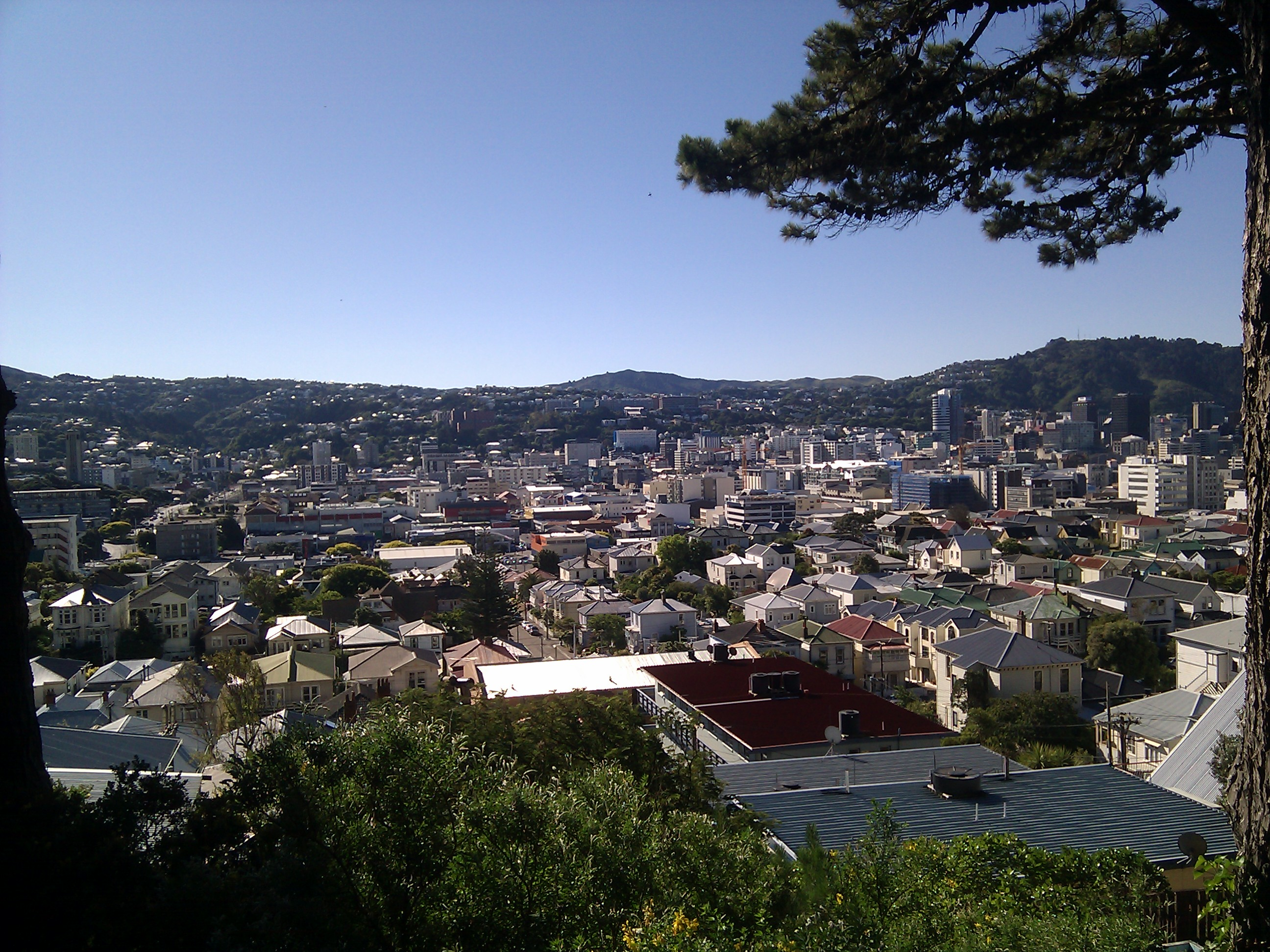 A portion of inner city Mount Victoria seen from the reserve Armour Avenue just left of centre